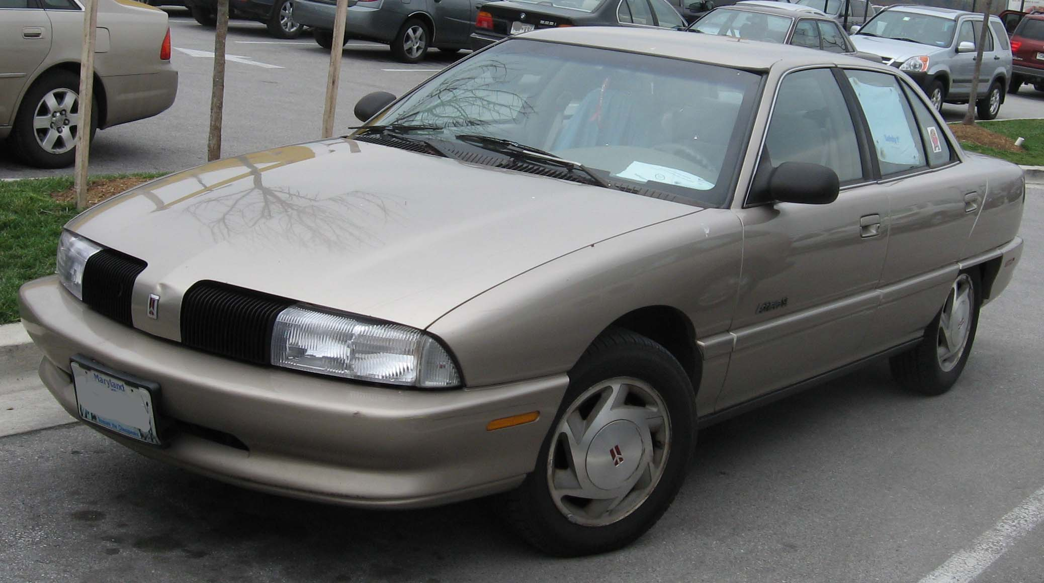 1992-1998 Oldsmobile Achieva photographed in USA.